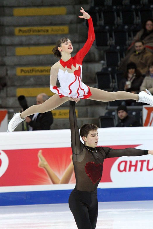 Natalja Zabijako / Sergei Kulbach at the 2011 European Figure Skating Championships.